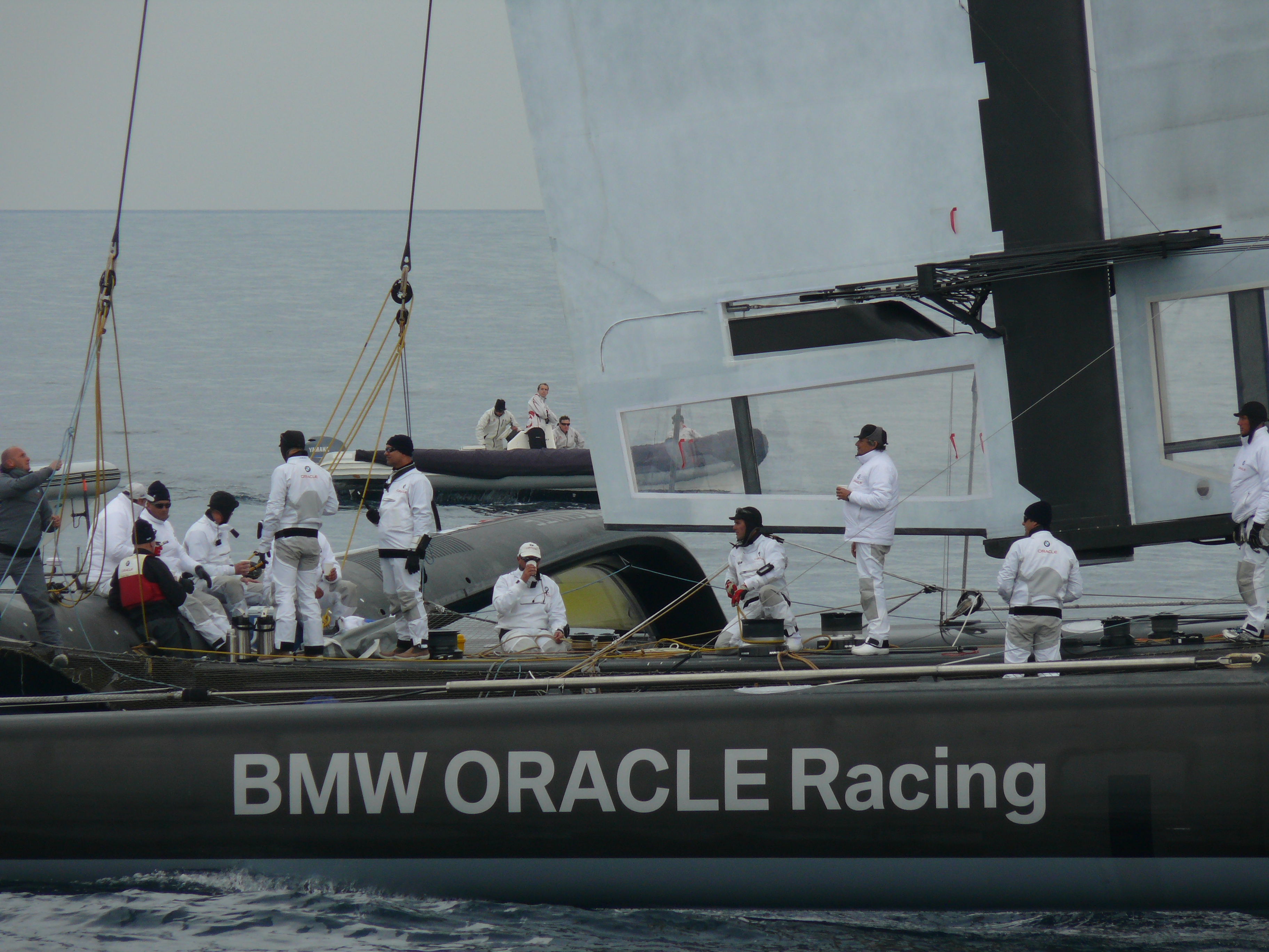 BMW-Oracle-Racing-Yacht 2010, Valencia